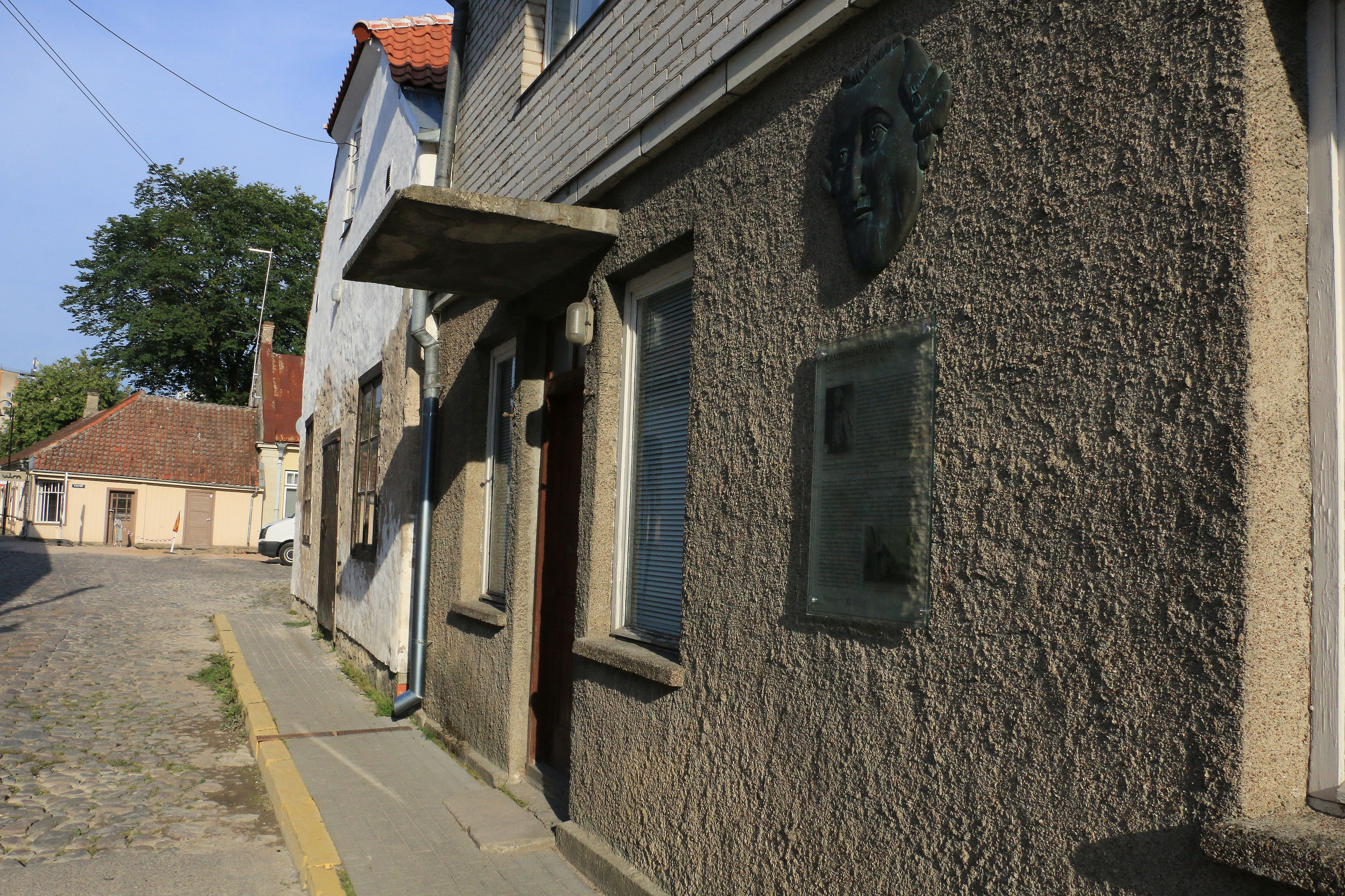 Commemorative plaque for Balthasar Campenhausen at his former residence in Kuressaare/Estonia